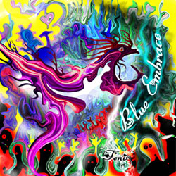 Blue Embrace Fenix 2012